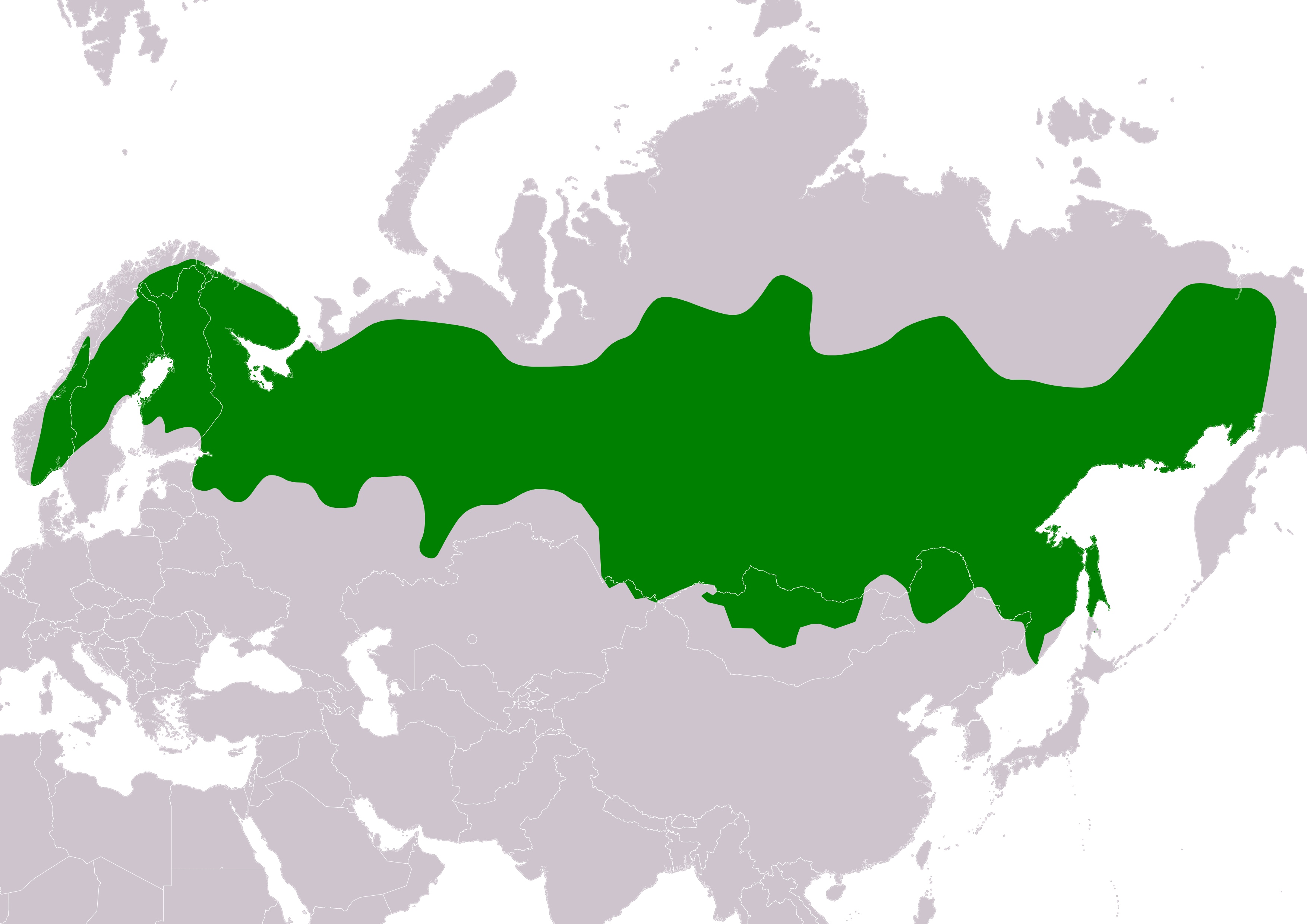 Distribution map of Siberian Jay (Perisoreus infaustus) according to IUCN version 2020.1 (Compiled by: BirdLife International and Handbook of the Birds of the World (2016) 2016); key: Legend: Extant, resident (#008000)